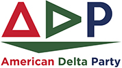 Logo for the American Delta Party formed by Rocky De La Fuente for his 2016 presidential campaign.